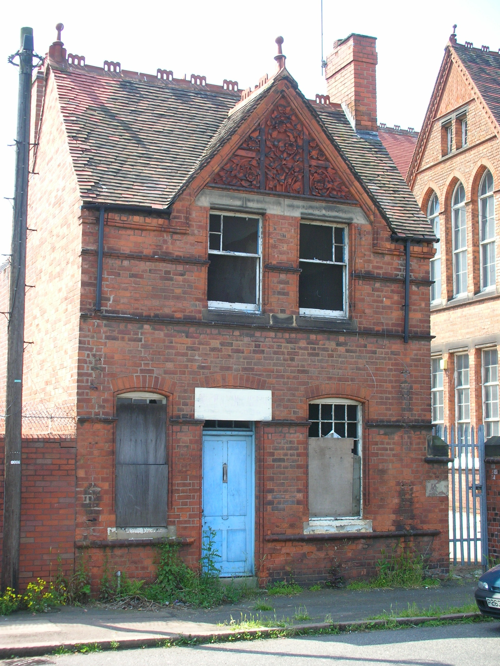 Icknield Street Board School - the Headmaster's House, a Grade II* listed building in Hockley, Birmingham, England. 1883 by Martin & Chamberlain.